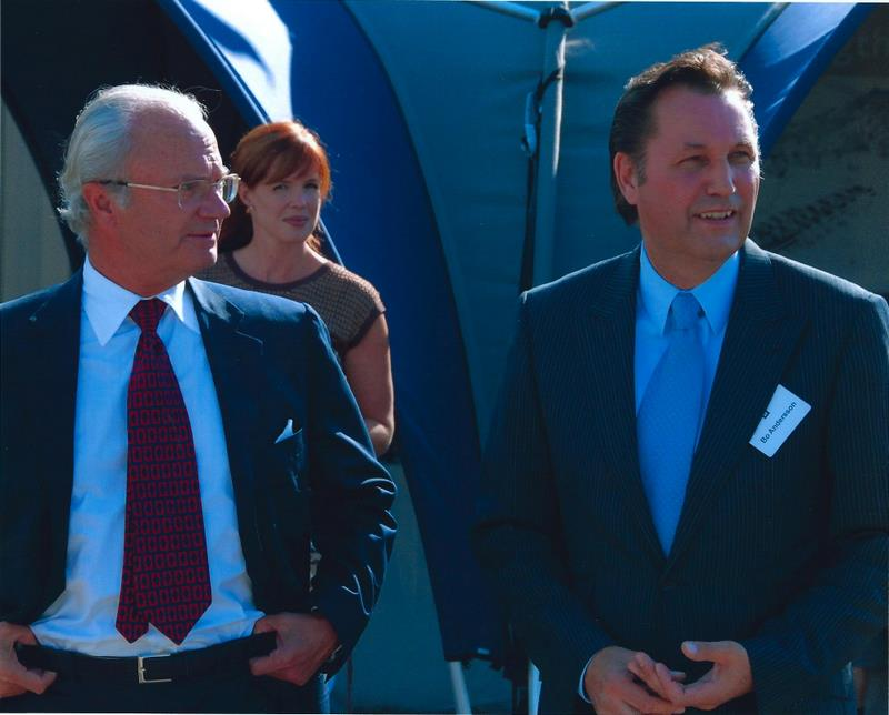 Bo Andersson and King Carl XVI Gustaf in Michigan